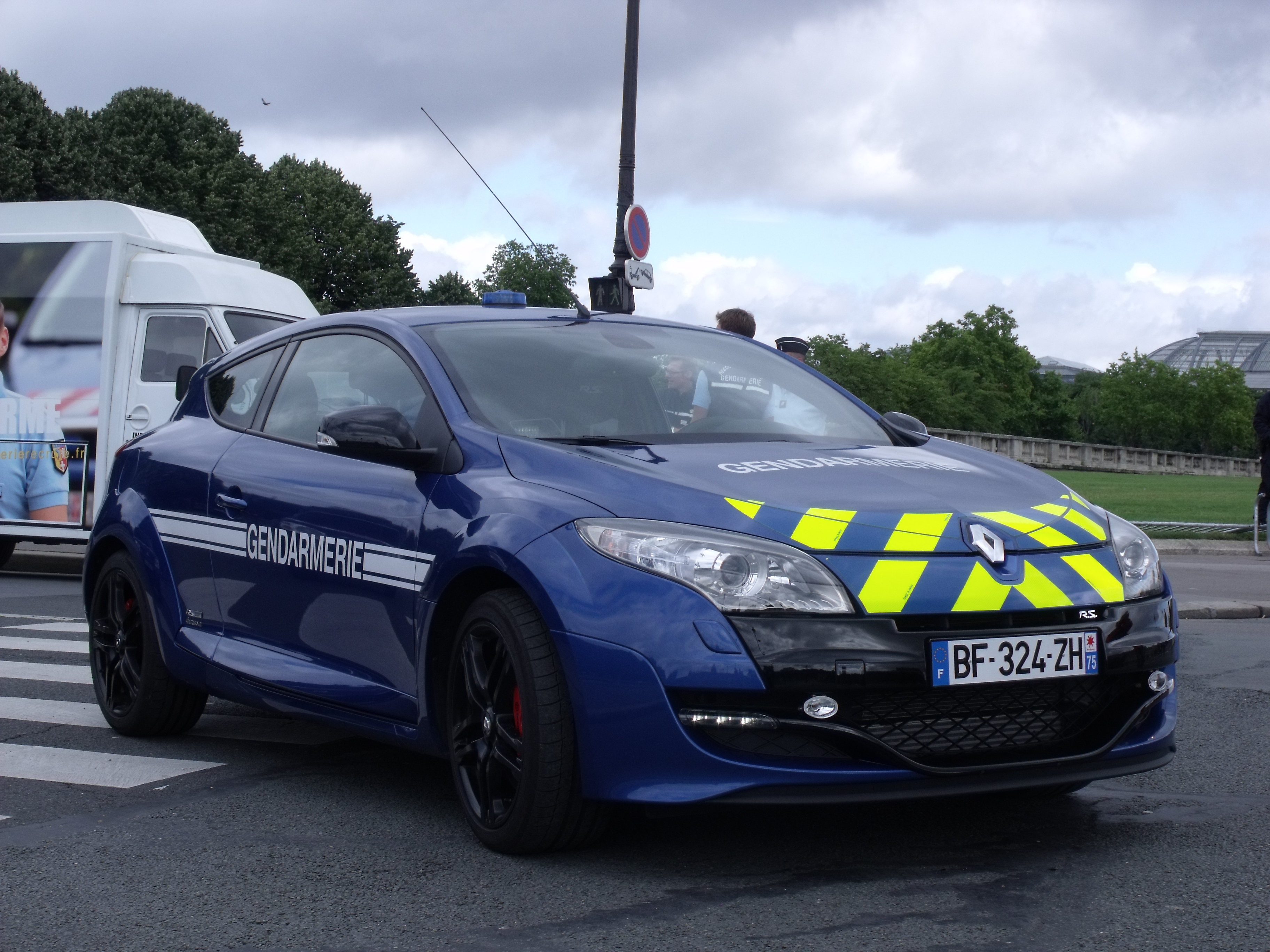 Interception Renault Mégane RS of the French Gendarmerie Nationale seen are at the Invalides on Bastille Day afternoon.